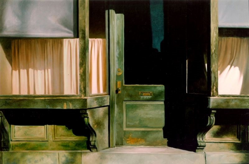 "The title suggests the cyclical nature of the passing of time. A child of the '50's, it is comfortable for me to to remember those calmer years with a sense of stability. I went through those years relying on the taking for granted that all around me stayed the same and I was the one who changed and grew. I see people today not growing very much but chains of lifeless commercial outlets erasing the faces of old neighbors." Carroll Jones III, Jones III, Nathaniel Press (2013)